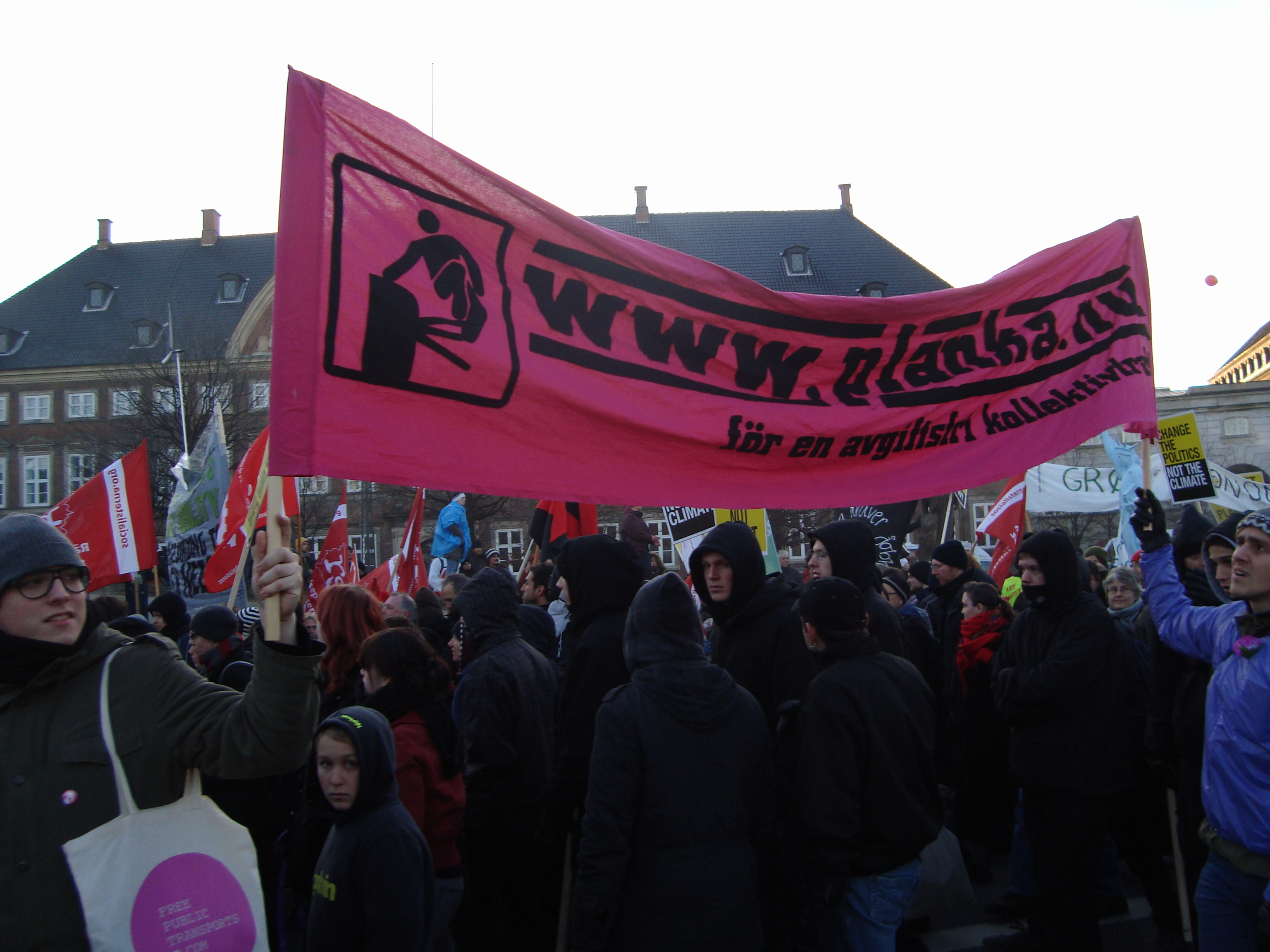 Planka.nu demonstrating at the COP15 in Copenhagen in December 2009.